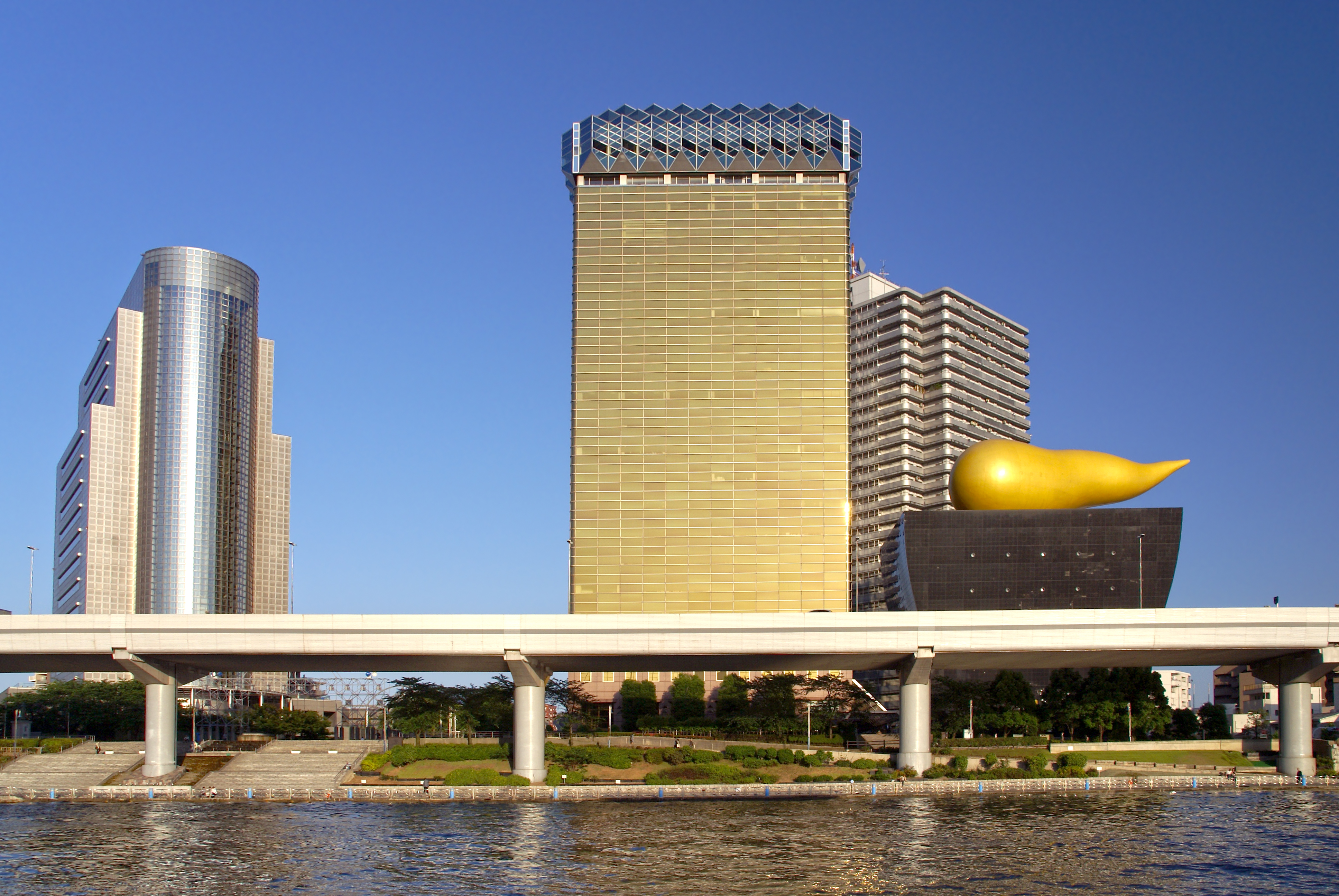 Asahi Breweries Head Quarters in Sumida-ku, Tokyo, Japan